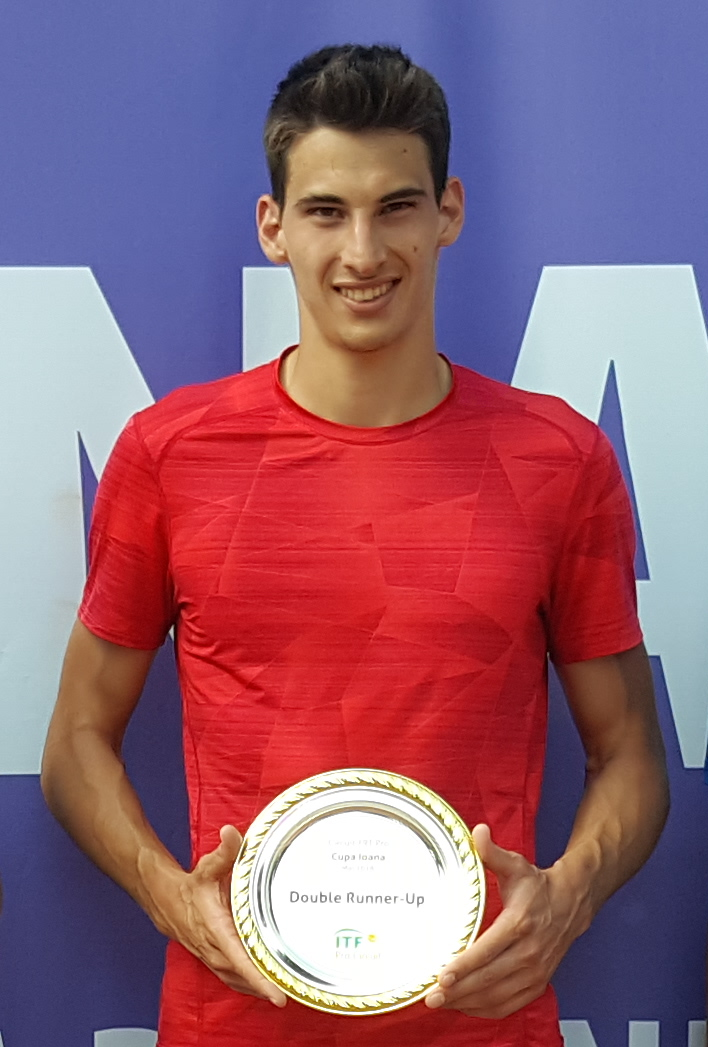 Romanian professional tennis players Vasile ANTONESCU (ROU) / Patrick GRIGORIU (ROU) [1] def. 6-1 6-4 Victor Vlad CORNEA (ROU) / Victor CRIVOI (ROU) at the Ioana Cup Doubles Finals 2018 Romania Futures1 – held at the Tenis Club Herastrau in Bucharest, 25 May 2018.